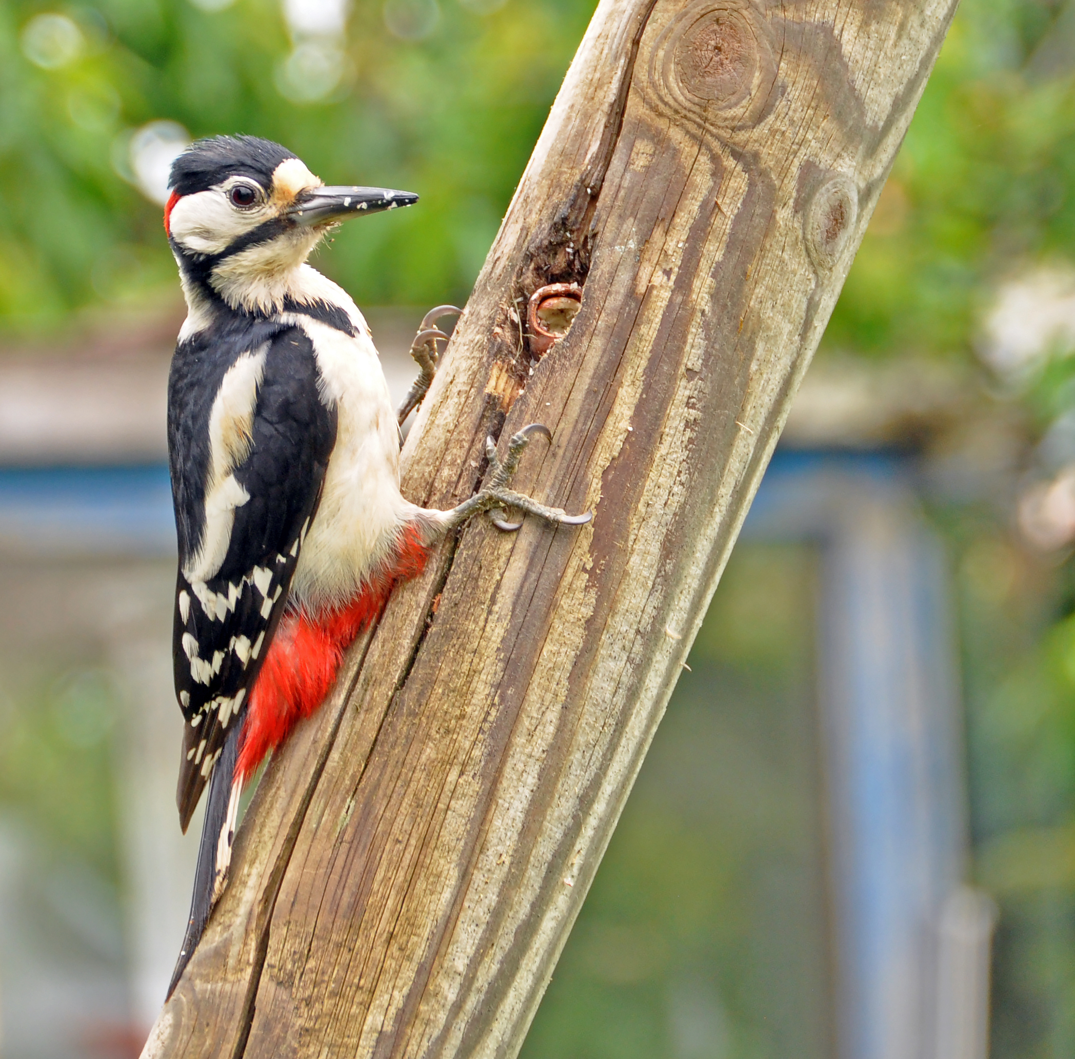 A hole, a nut, a forge